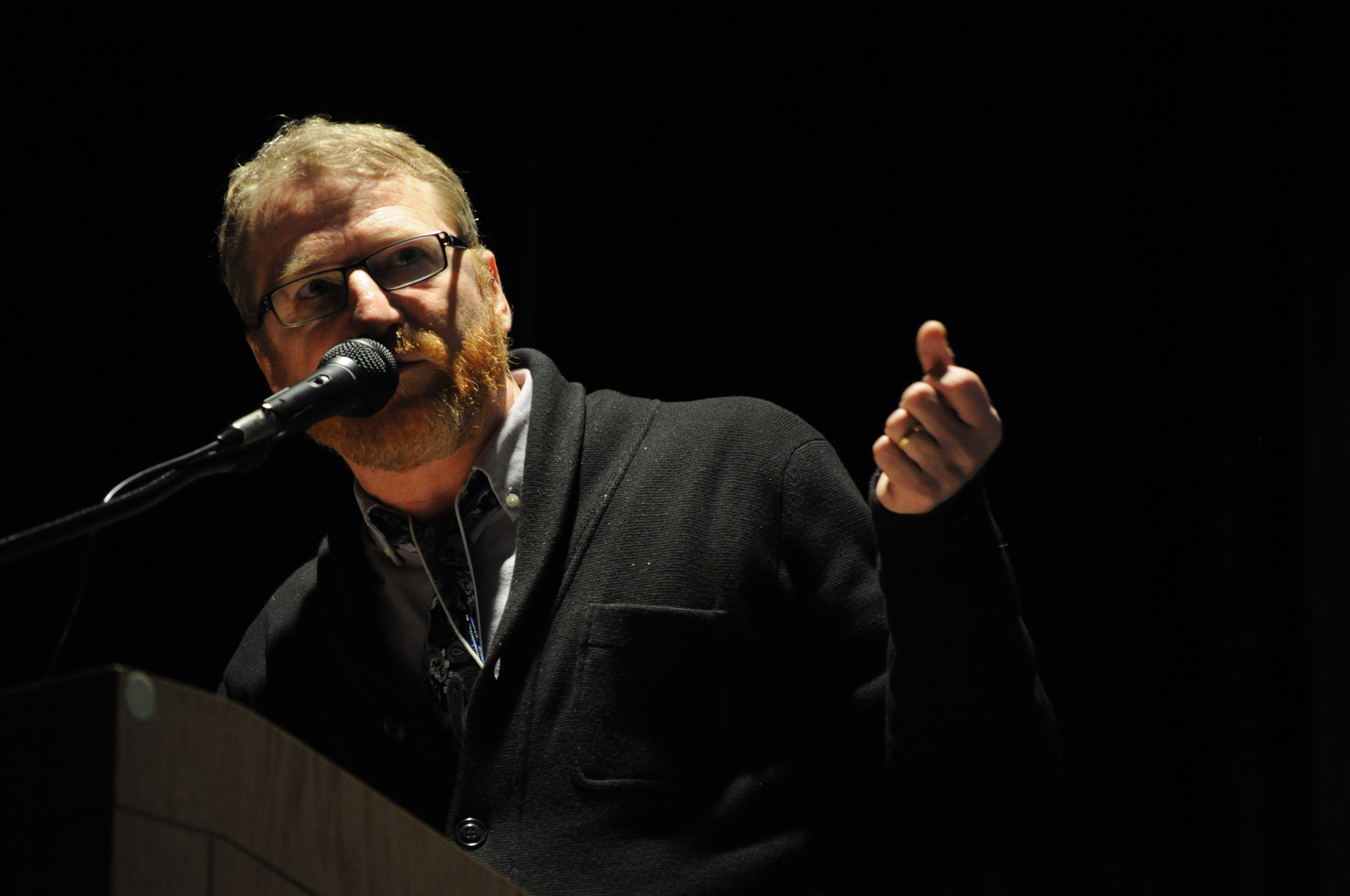 David Lowery of Camper Van Beethoven and Cracker at the 2011 Pop Conference at UCLA.